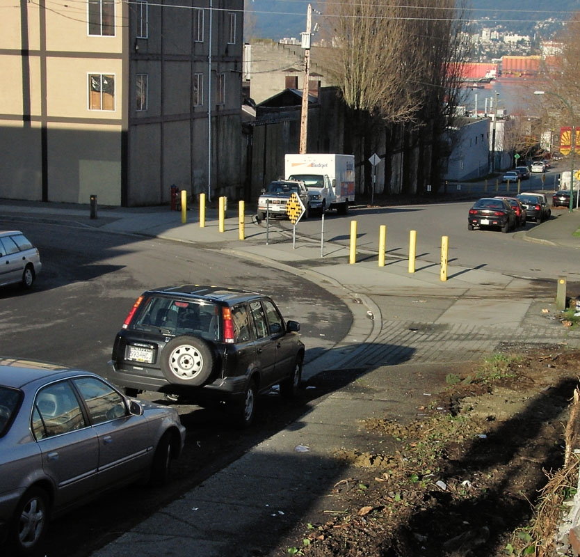 Roadway diverter with bollards (located in British Columbia, Canada)